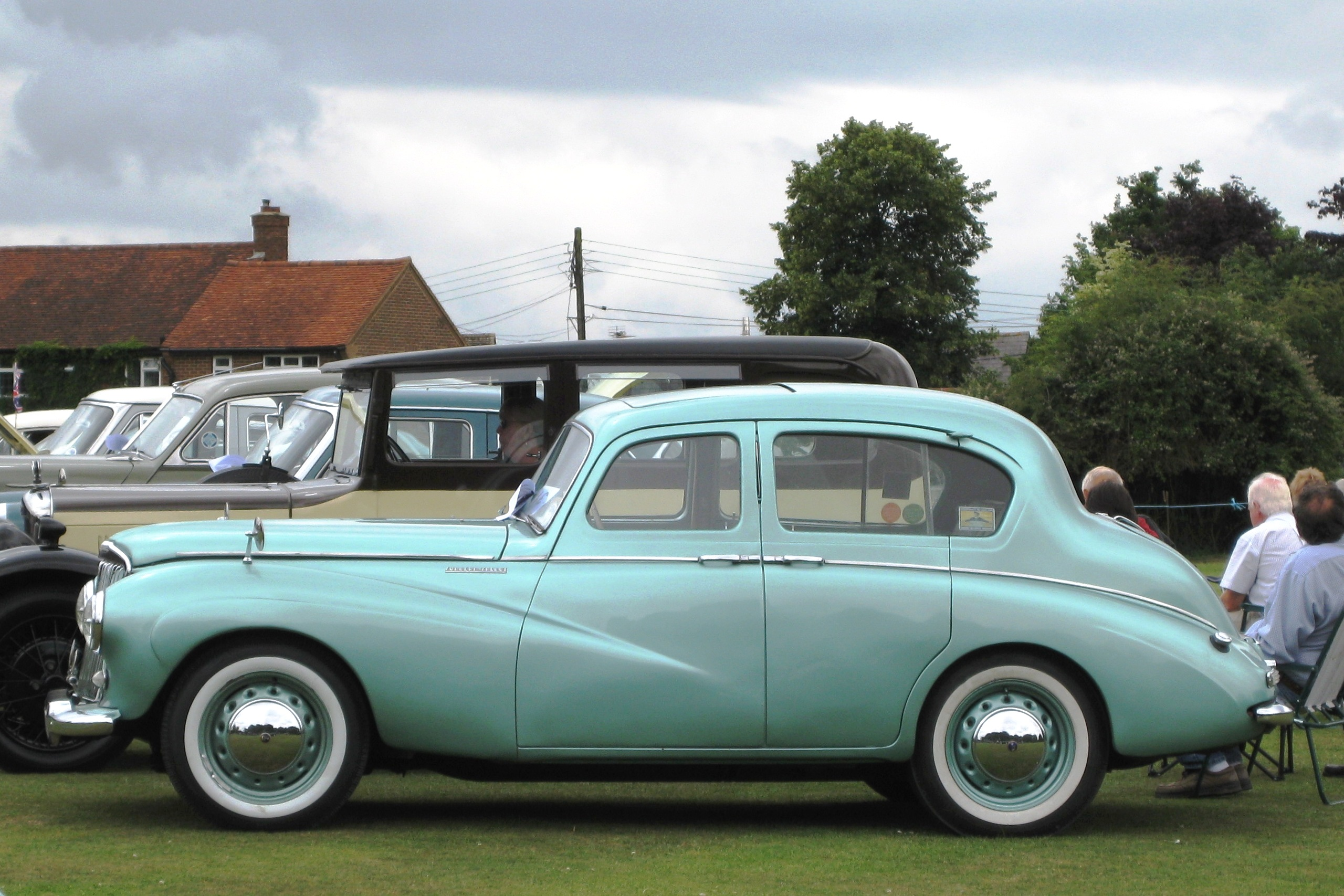 Sunbeam Talbot 90 Mk II in profile